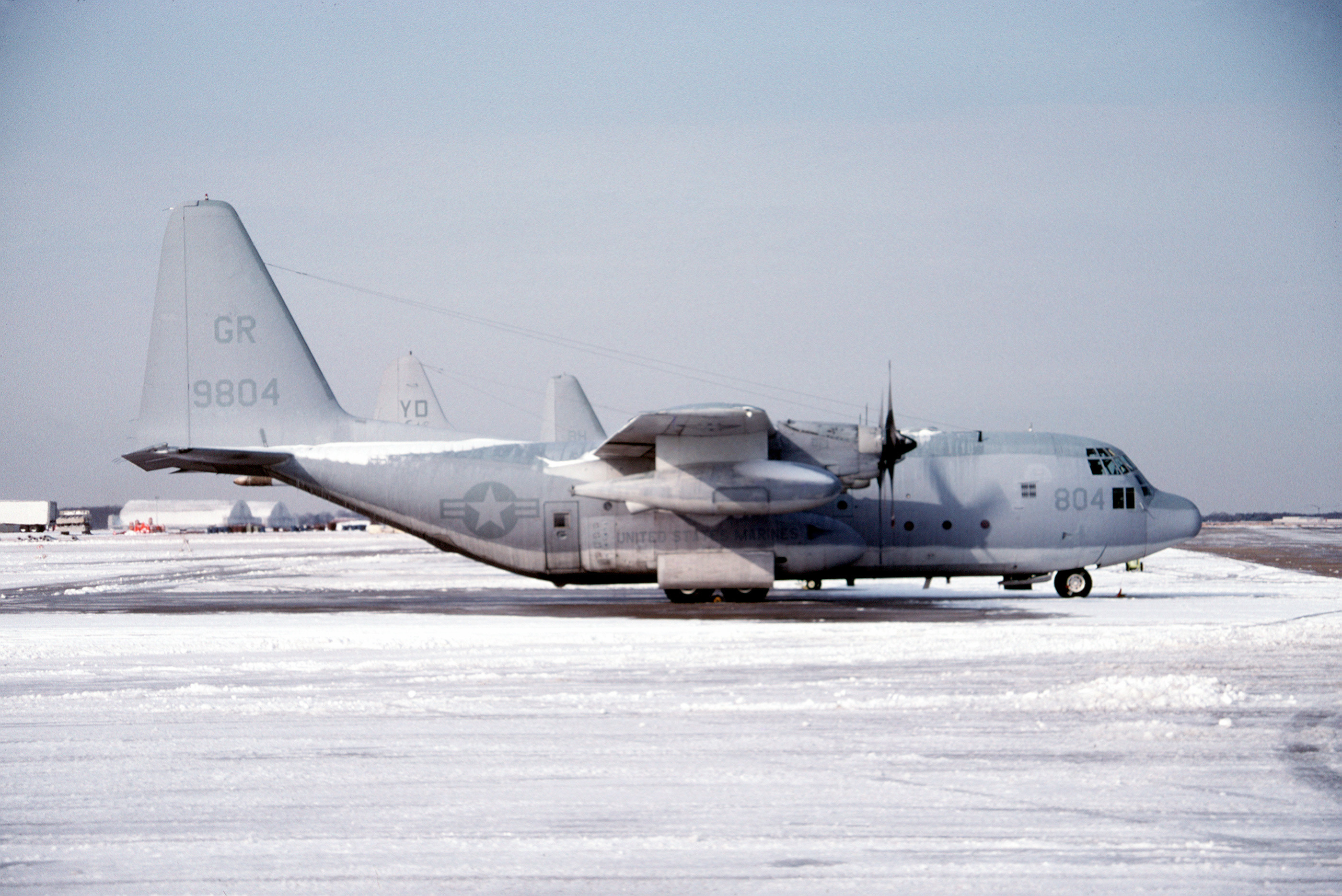 A U.S. Marine Corps Lockheed KC-130F Hercules (BuNo 149804) of Marine Refueler-Transport Training Squadron 253 (VMGRT-253) parked on the snow-covered flight line at Naval Air Facility Andrews, Maryland (USA), in 1993.